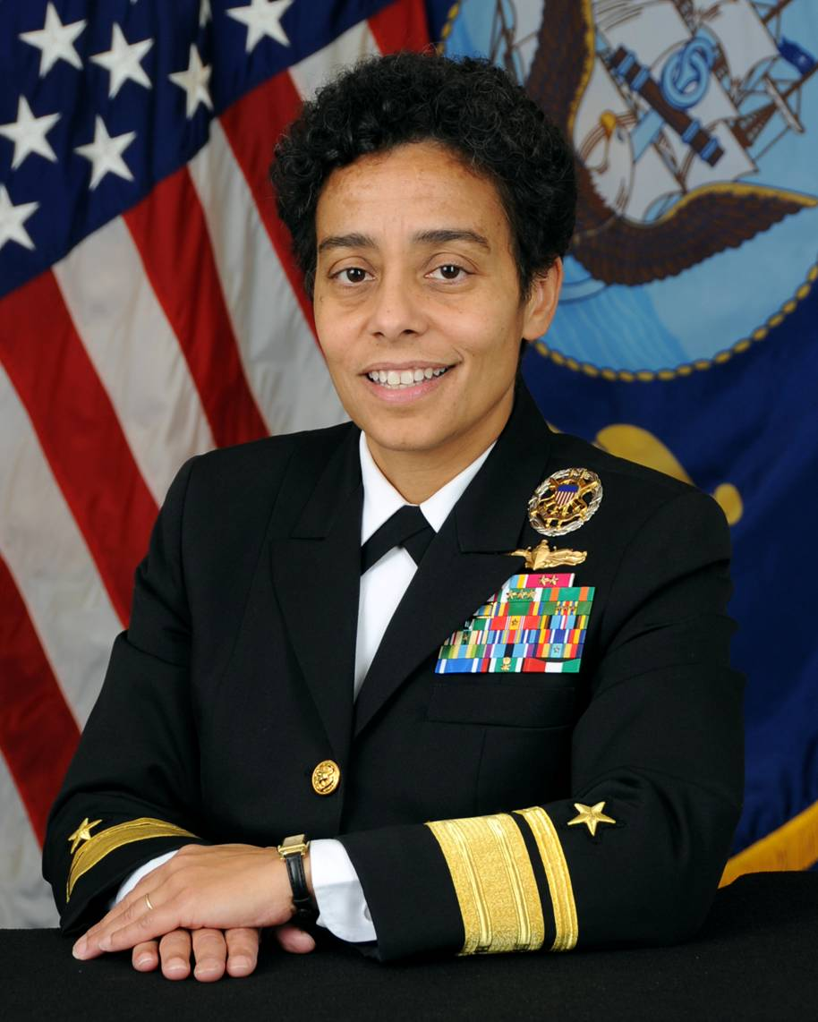 Official photo of United States Navy Rear Admiral Michelle J. Howard